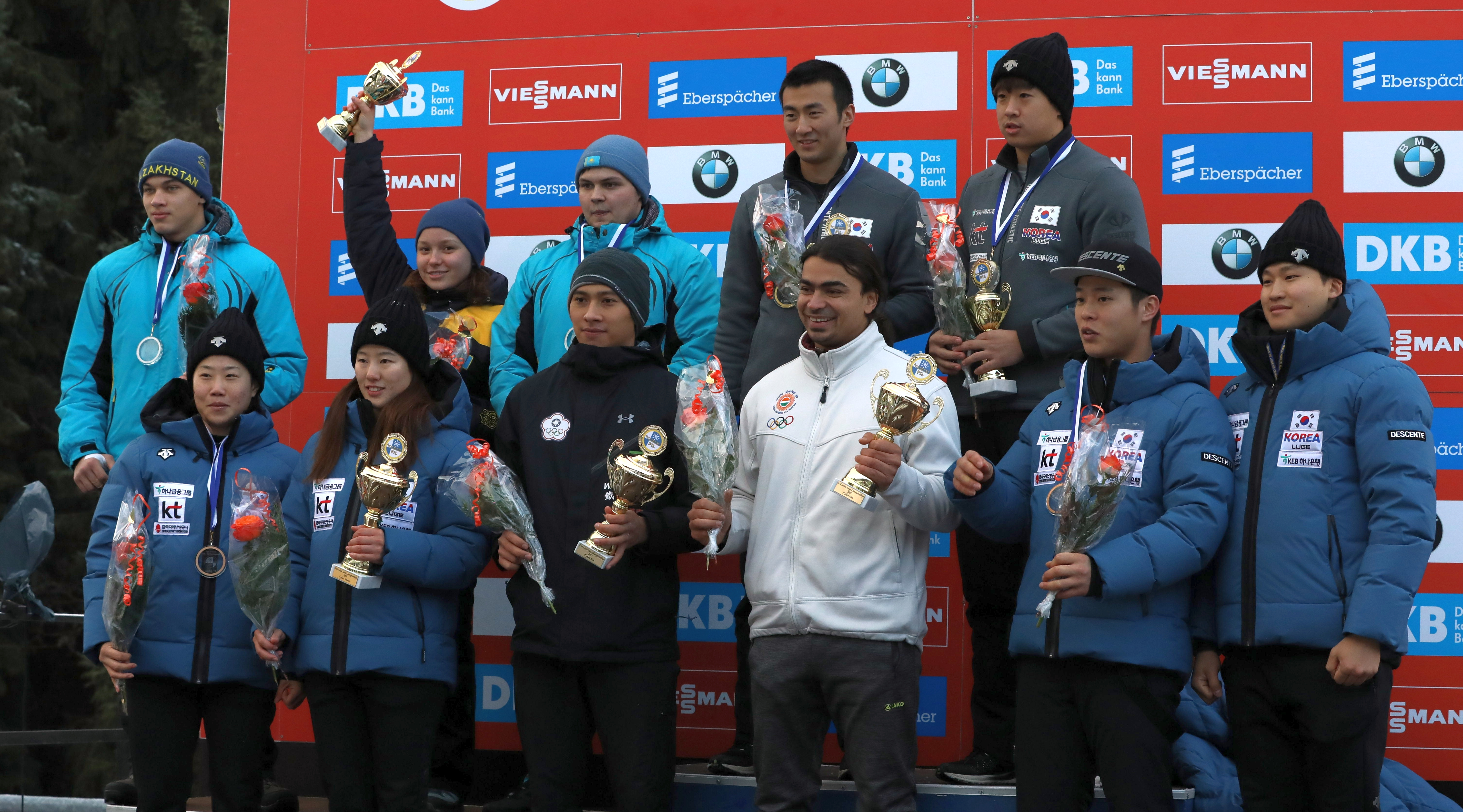 Asian championships 2017 in Altenberg